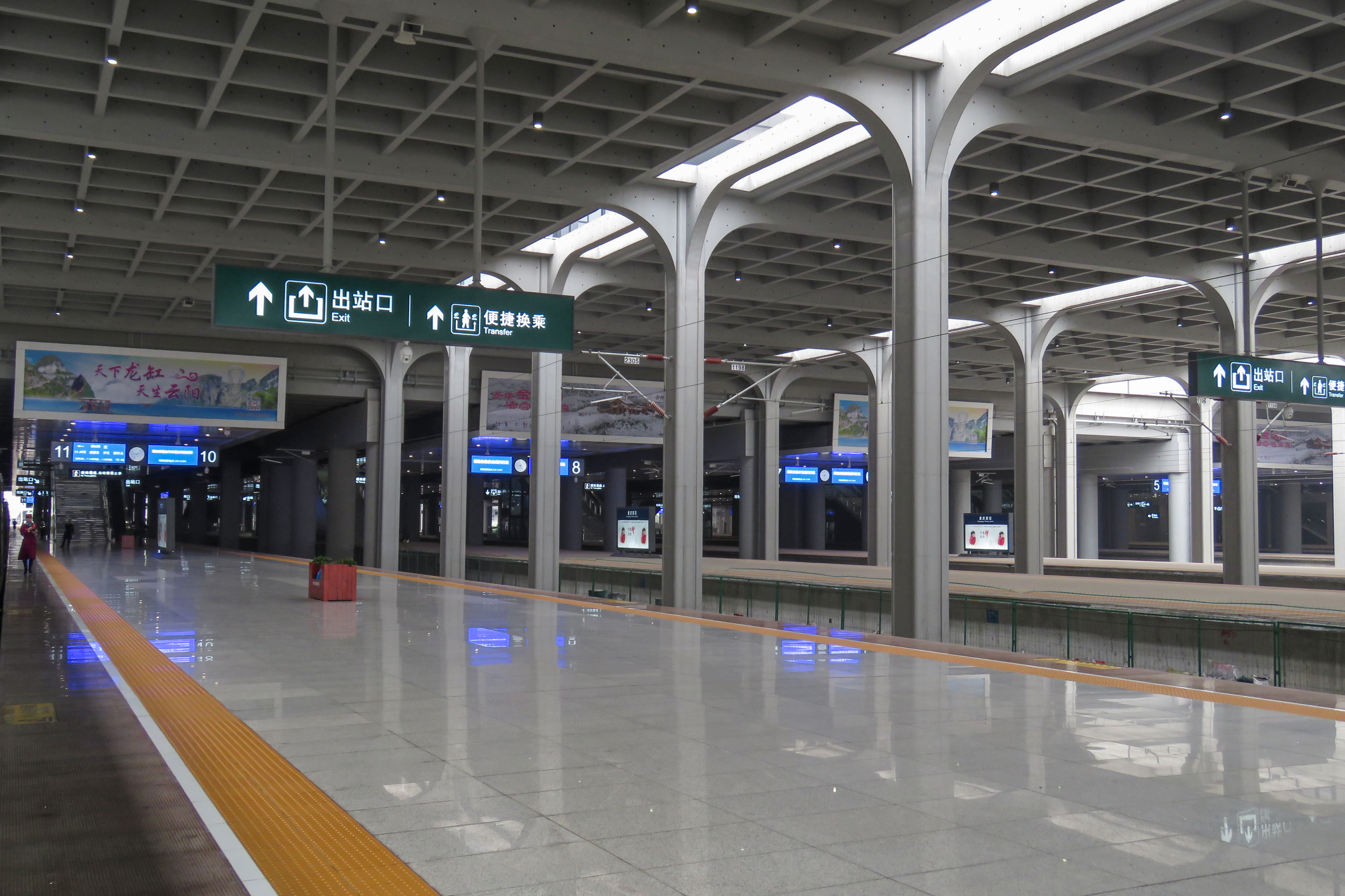 It's no wonder we call it "Waffle West Station" - the grids make the canopies resemble waffles.